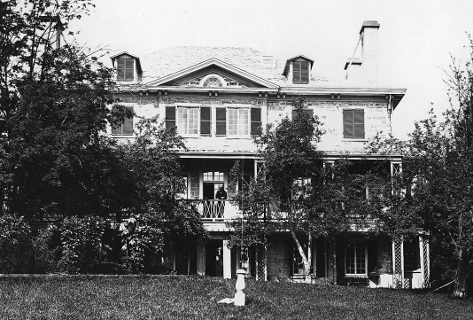 Photograph of Mr. Frothingham's house "Piedmont", Durocher Street, Montreal, Quebec, 1863